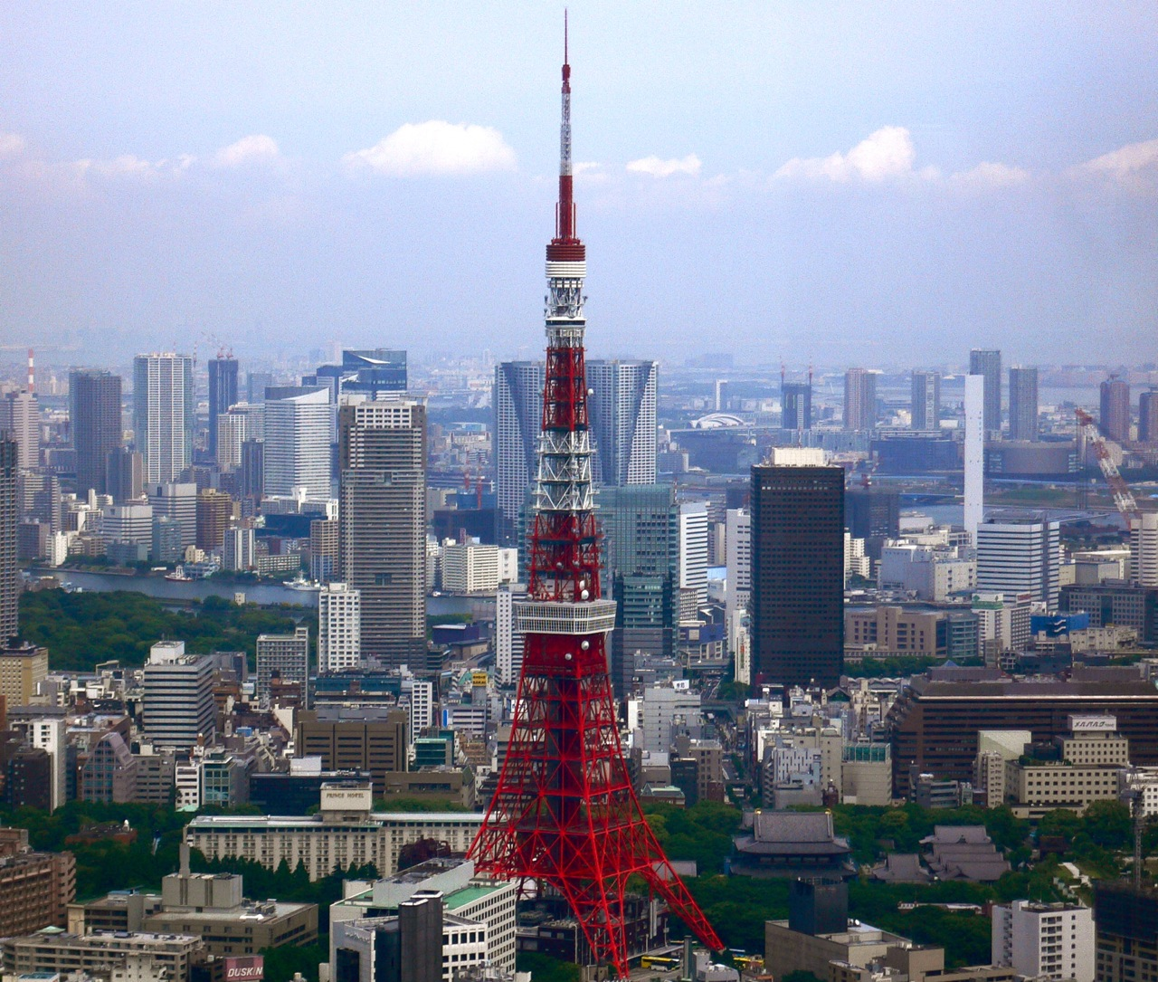 Tokyo Tower and around Buildings View of Roppongi Hills Mori Tower Roof.